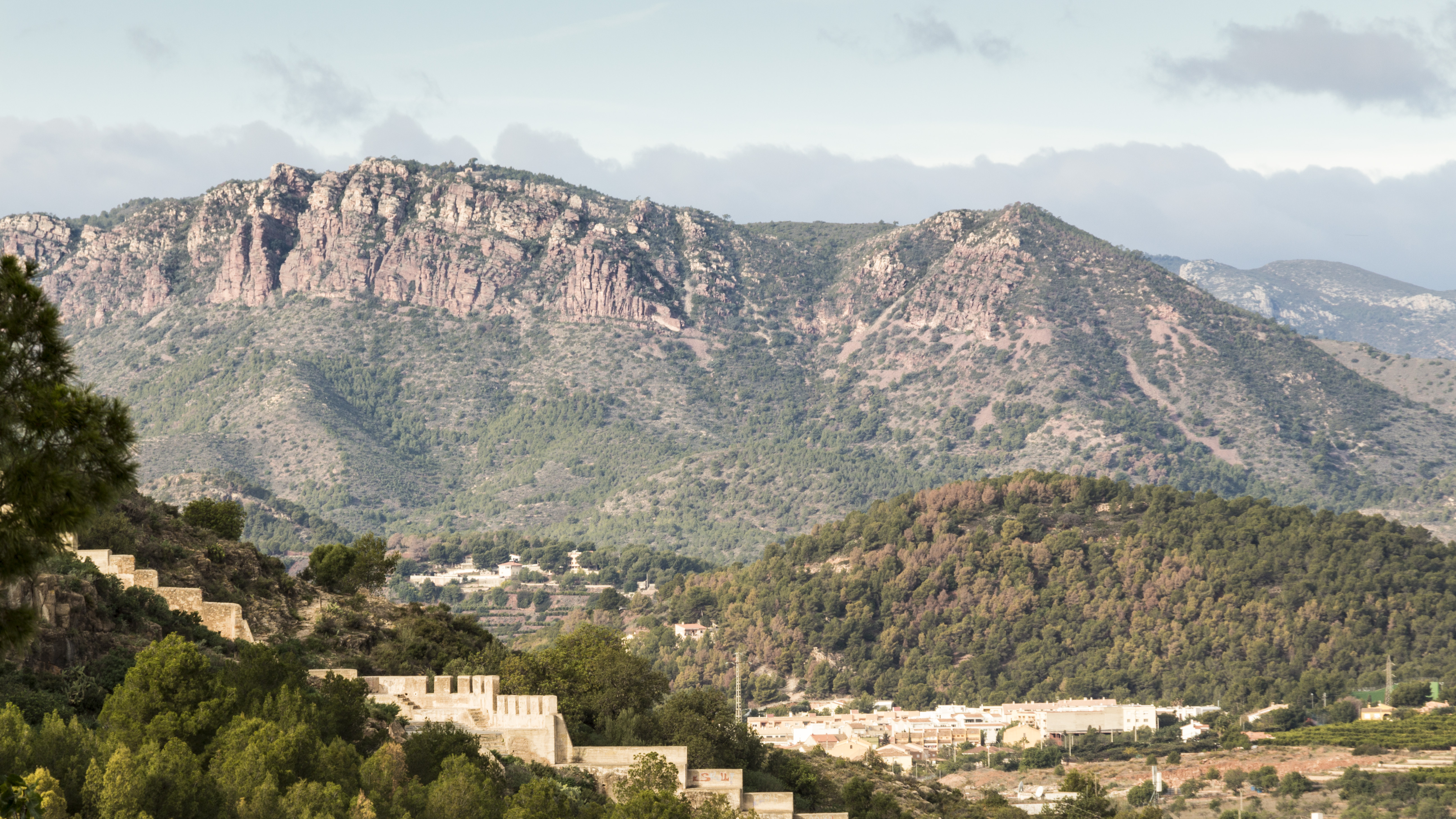 This is a photography of a Special Area of Conservation in Spain with the ID: ES5232002. Natura2000 entry, EEA entry